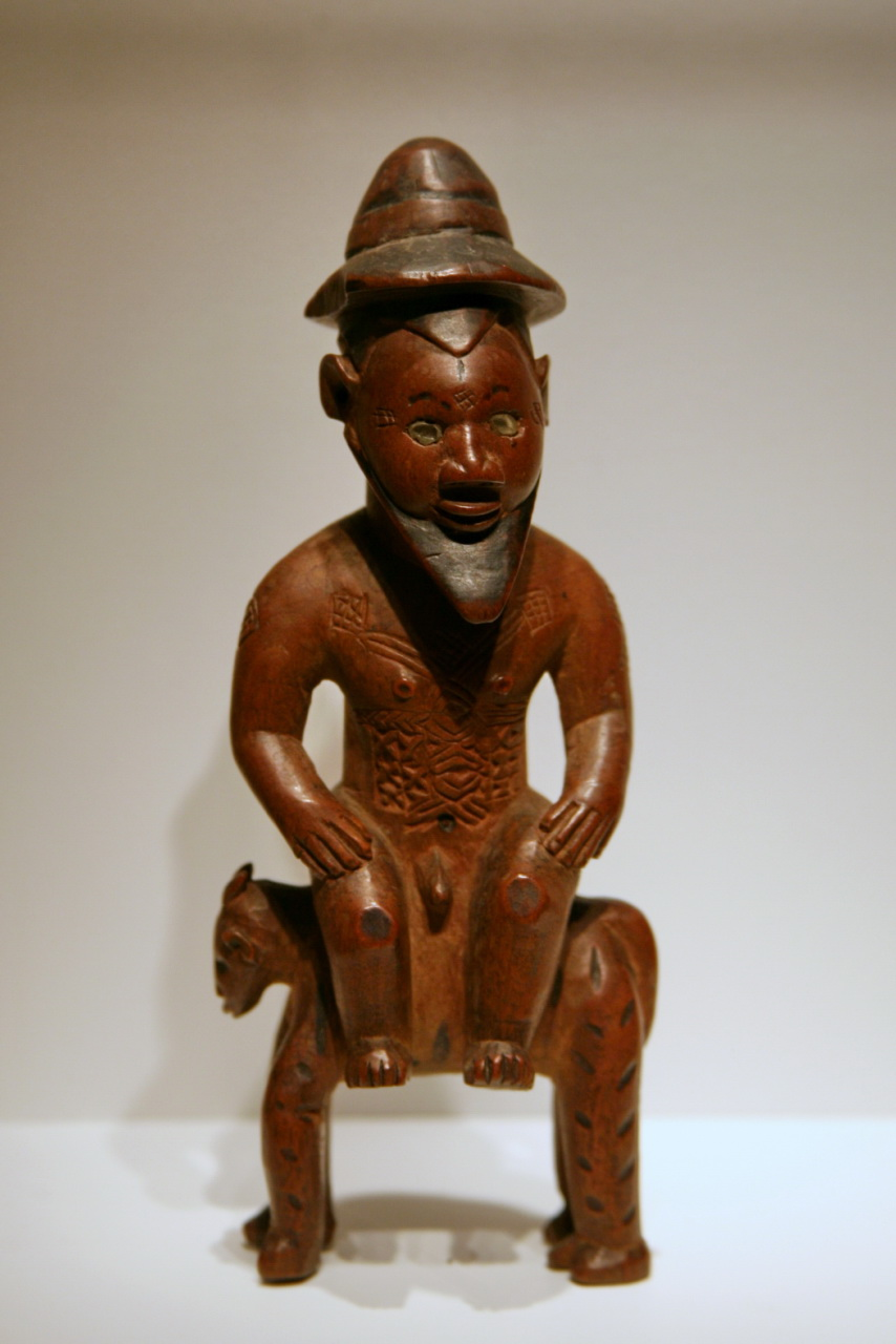 Male figure, Bembe peoples, Republic of the Congo, Early 20th century, Wood, glass Seated on an animal, this Bembe figure is posed as a powerful chief. The combination of a leopard's spotted fur with a horned face also suggests extraordinary forces. The pith helmet atop the figure's head is an emblem of European colonial authority that the Bembe peoples incorporated into their own set of symbols expressing rank. While not visible, spiritual power is infused by religious specialists who breathe the spirit of the ancestor-and also in this case, the animal-into holes cut into the underside of the carving. (National Museum of African Art)